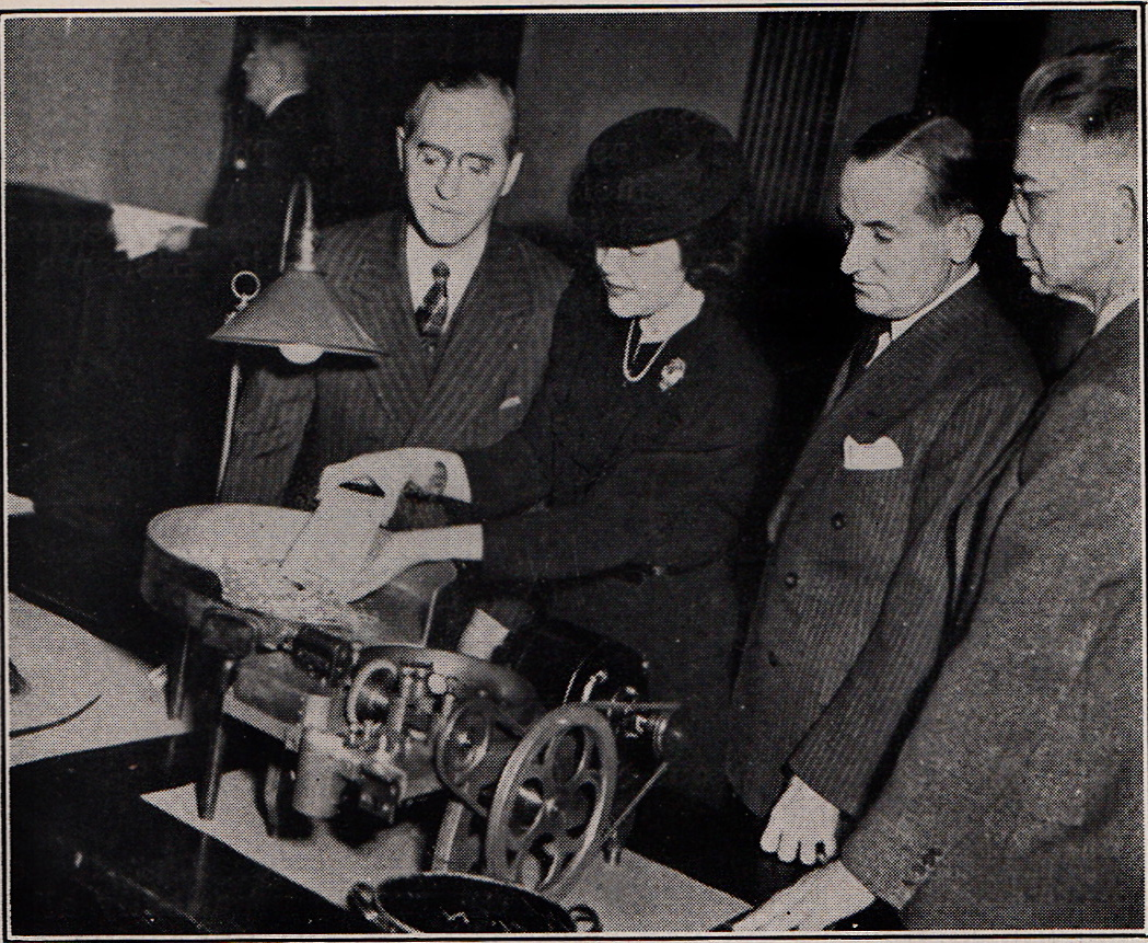 Members of the 1942 United States Assay Commission check the count on an envelope of coins. The caption has the members as Joseph Moss, attorney, of Philadelphia, Pa.; Mrs. Wayne Coy, of Washington, D.C., Mr. Felix boylan, vice president of Modern Industrial Bank, New York City, and chairman of the counting committee Mr. Clarence Powers, president The Puritan Bank and Trust Company, Meriden, Conn.